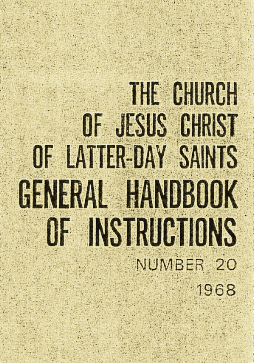 Cover of the LDS Church's General Handbook of Instruction 1968 edition